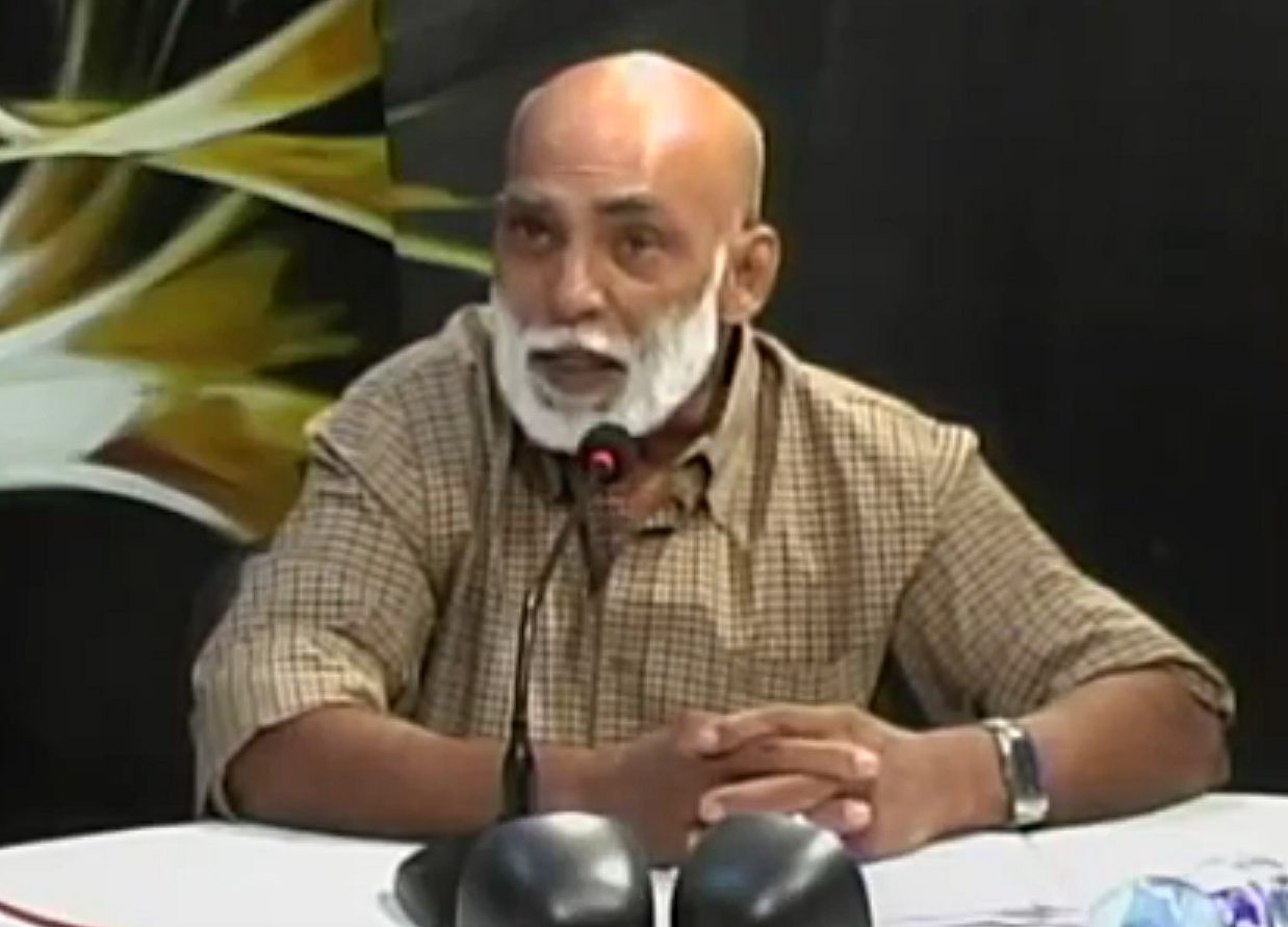 Badrissein Sital, Surinamese military officer